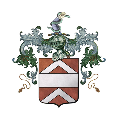 Nourse coat of arms, used by various branches of the family in Herefordshire, Gloucestershire, Oxfordshire, and Buckinghamshire, as well as in America (specifically Virginia, Maryland, and D.C.). Officially granted by letters patent on 27 May 1629 to John Nourse of Chilling Place, in Oxfordshire, Esq., son of John Nourse of Milton Keynes, in com. Bucks, by William Segar, Garter Principal King of Arms. “Blazon: Gules a Fess between two Chevrons Argent with a Crest of an Arm embowed vested Azure cuffed Argent grasping in the hand a snake vert environed around the Arm.” In the Herald's Visitation of Herefordshire of 1683 the same Arms are shown with a Crescent for difference and the crest shows a naked arm entwined by a serpent. An extensive pedigree headed by Walter Nourse of Weston under Penyard in Herefordshire is shown. There is a handwritten note in the College of Arms copy of the manuscript which is of interest in that it shows the connection between the families of Nourse of Oxfordshire, Gloucestershire and Herefordshire: “As to the Arms, Richard Nourse of Chilling Place in Com. Oxon Esq. deceased son and heir of John Nourse gent deceased son and heir of Richard Nourse gent. long since deceased who bore of right from his Ancestors Gules a Fess between two Chevrons Argent declares that Walter Nourse of Porters Place in the parish of Newent in Com. Glos Esq., is younger son to Walter Nourse of Weston-under-Penyard in Com. Heref. gent younger son to Richard Nourse great grandfather of the certifier. And that of consequence he is to bear his Arms with the proper difference. Given under his hand and seal 12 May 1640.”